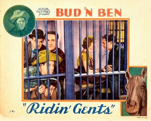 Lobby card del film Ridin' Gents